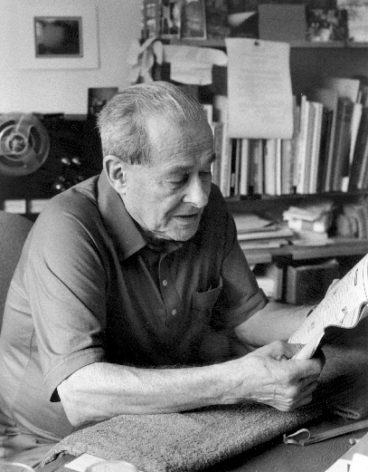 Photo taken around 1995 of Herbert Brun in his studio.